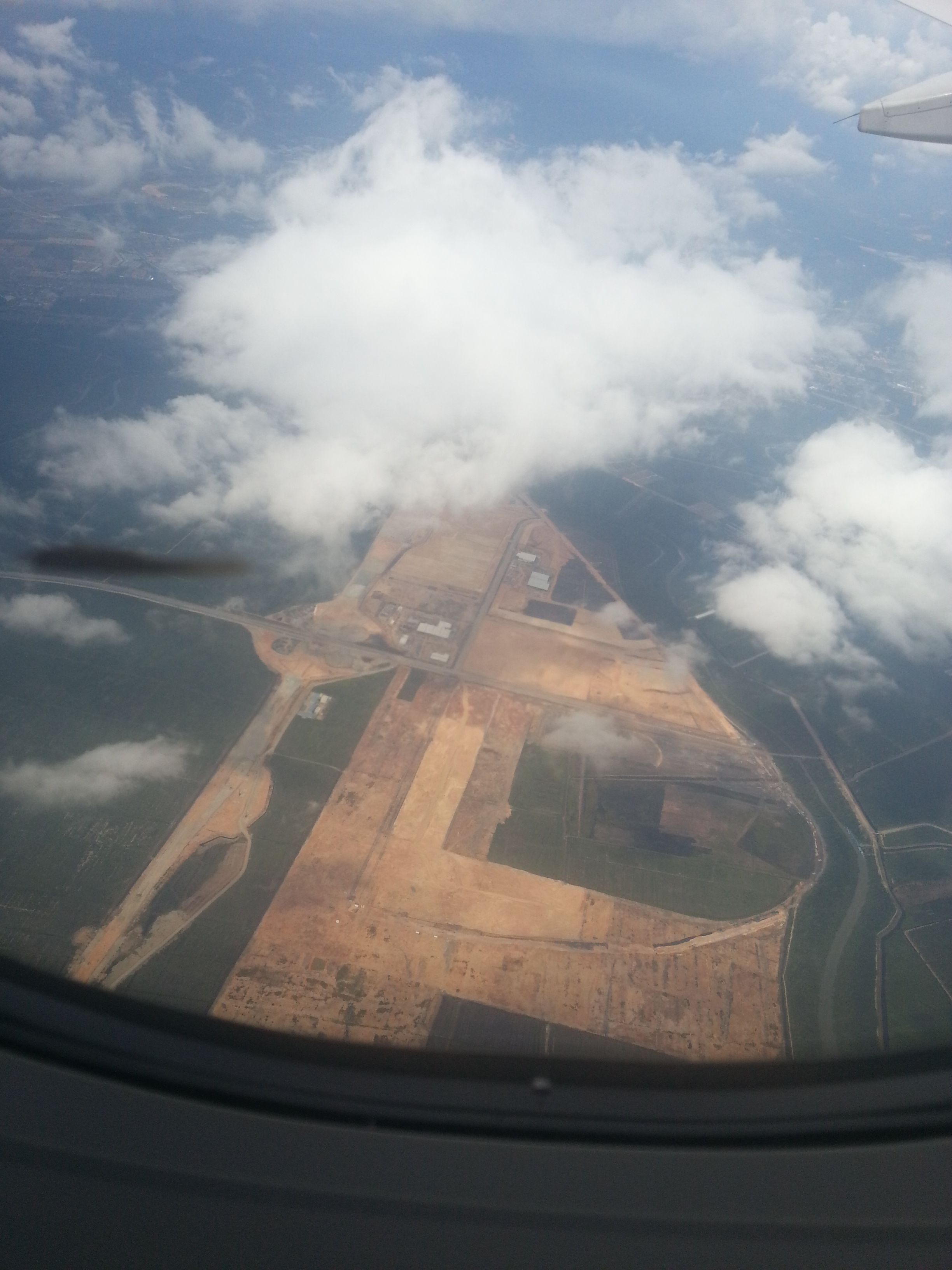 Penang Second Bridge Batu Kawan Site Office & PB2X Platform